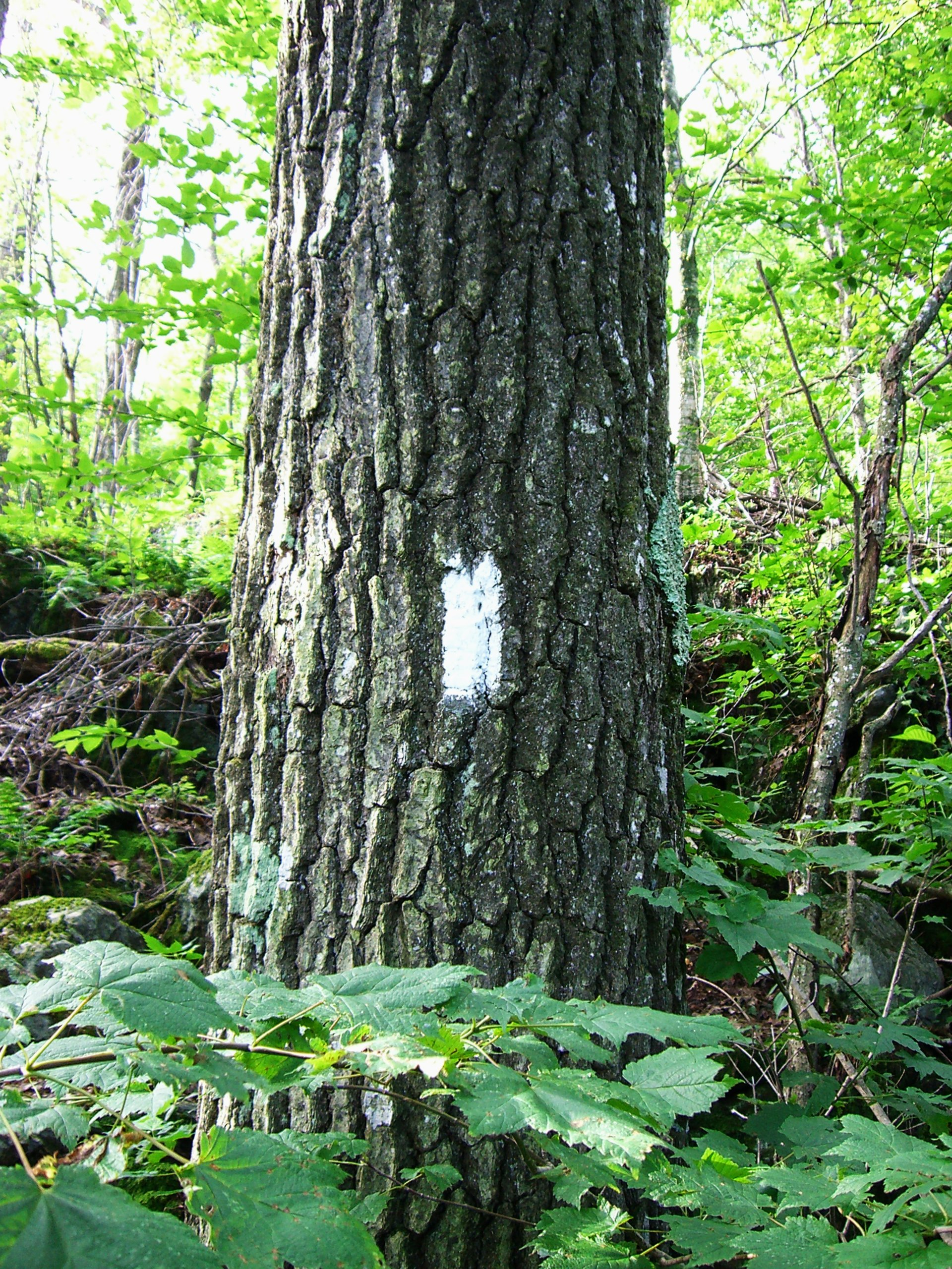 Appalachian Trail tag